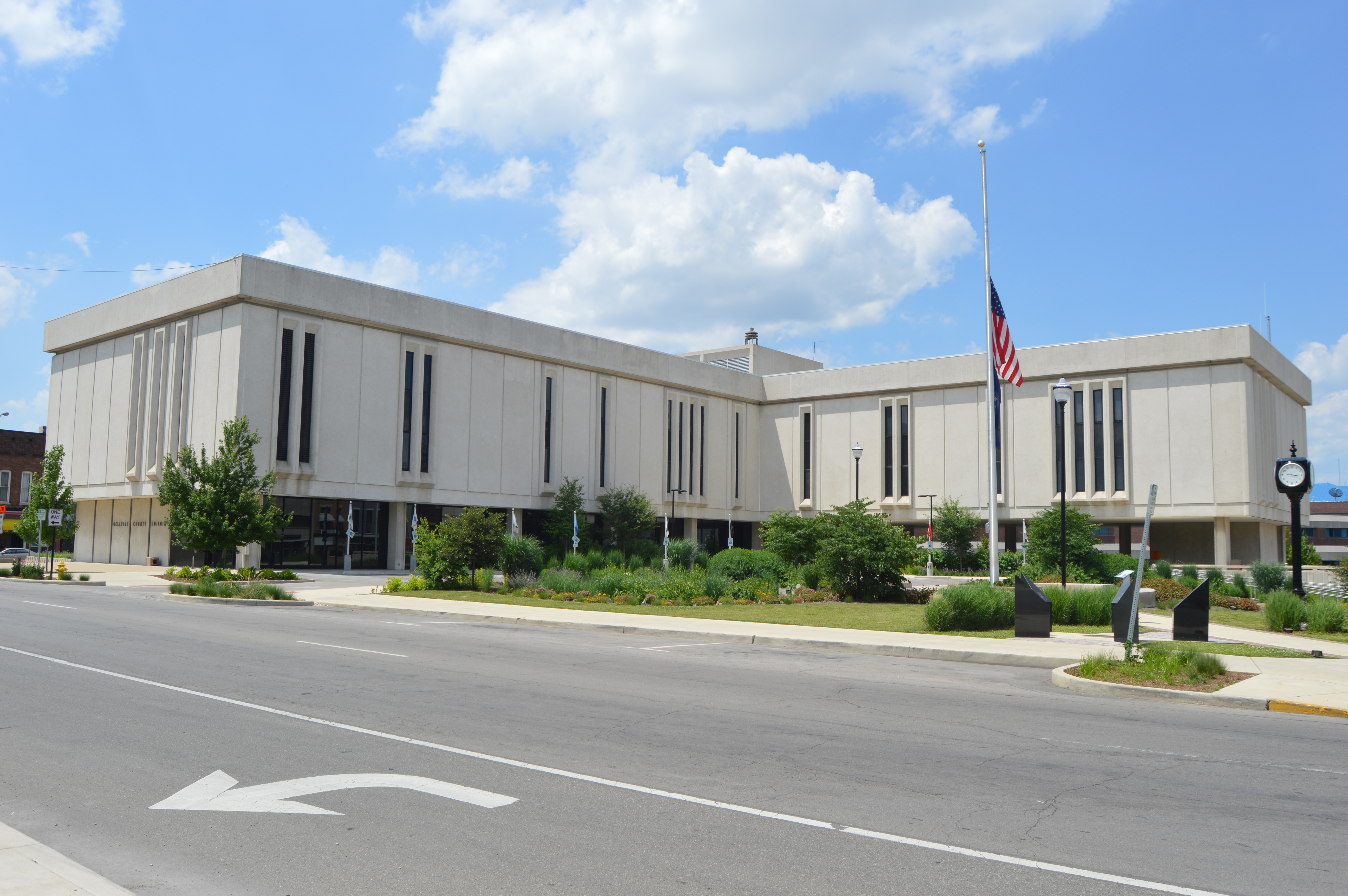 Southern and eastern sides of the Delaware County Courthouse, located in the block surrounded by High, Main (State Road 32), Walnut, and Washington Streets in Muncie, Indiana, United States. It was built in 1969 to replace a historic courthouse that was a victim of urban renewal.